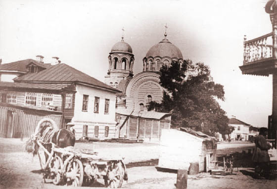 A church in Kyiv. Demolished by the bolsheviks in 1930-s